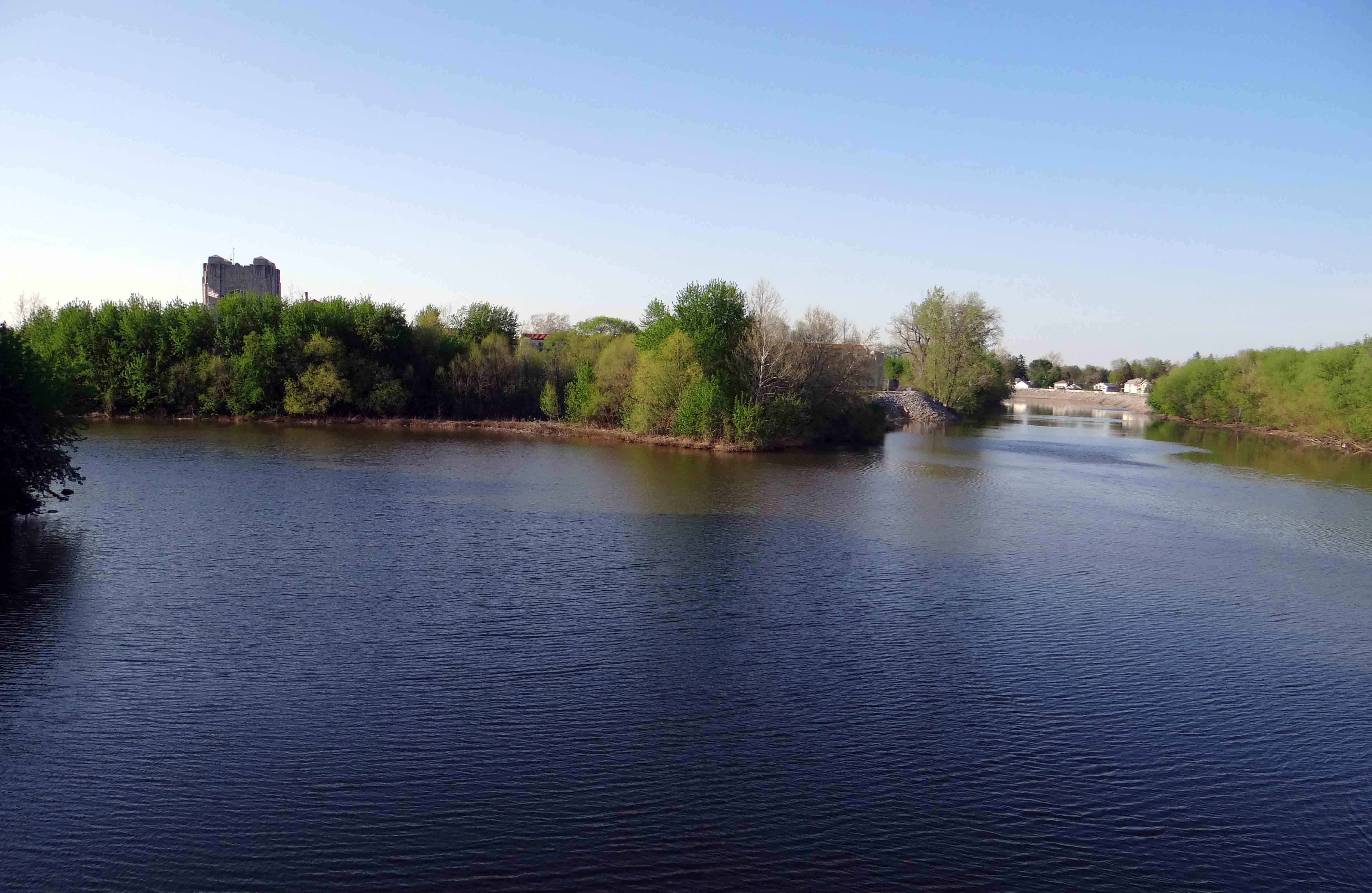 Taken from the Columbia Street Bridge, the St. Marys River (left) and St. Joseph River (right) converge to create the Maumee River. (foreground).